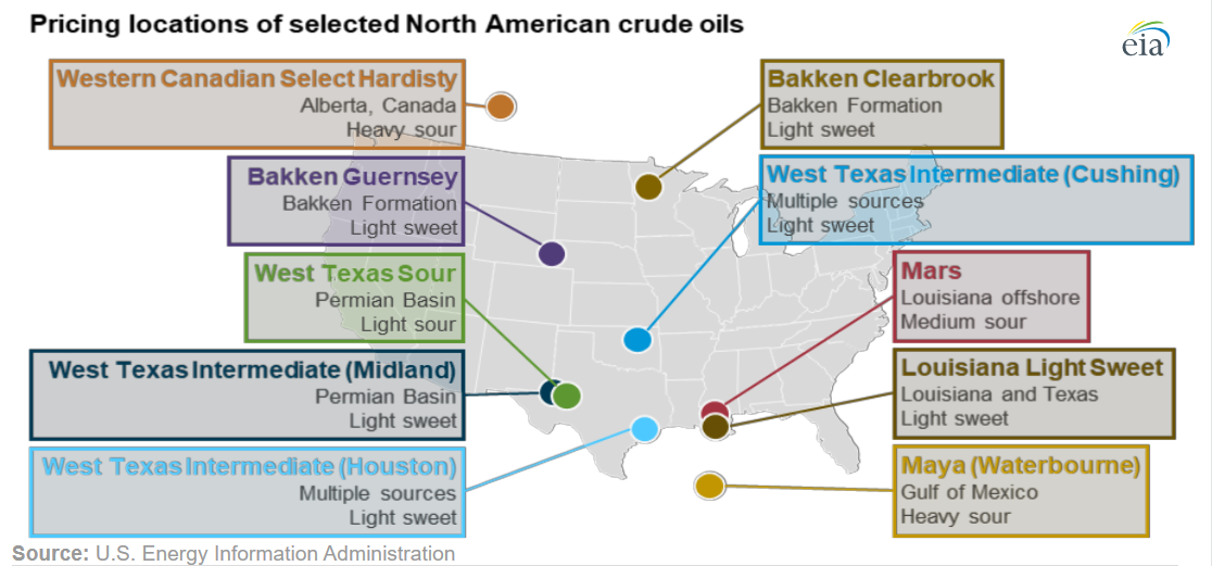 NYMEX WTI is geographically specific because it is physically redeemed (or settled) at storage facilities located in Cushing, Oklahoma, and so it is influenced by events that may not reflect the wider market. May 27, 2020